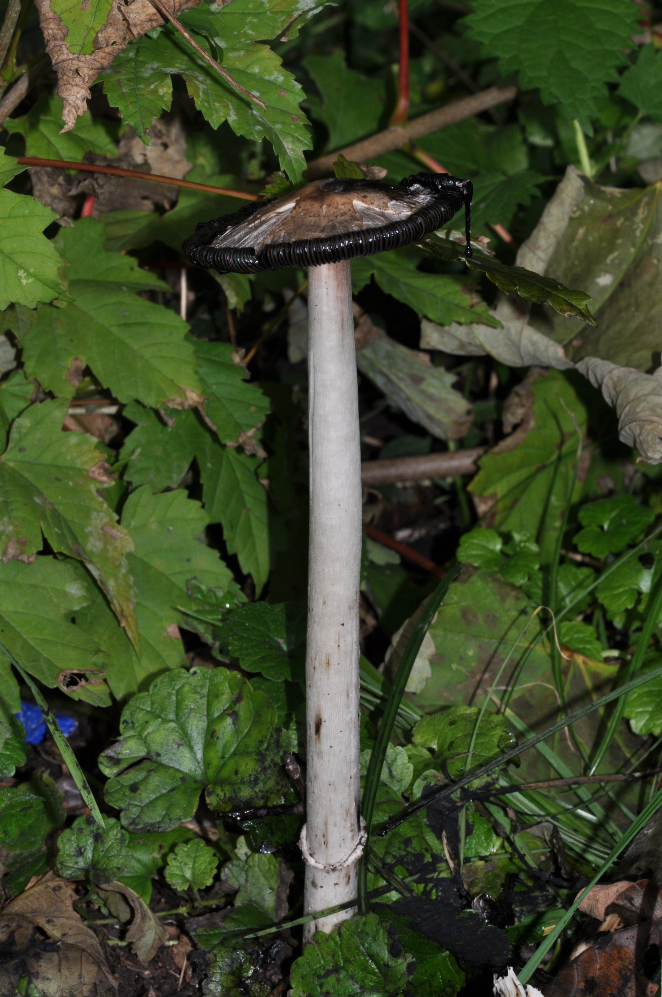 Shaggy Inkcap (Coprinus comatus) near Biggesee, Sauerland, Germany.